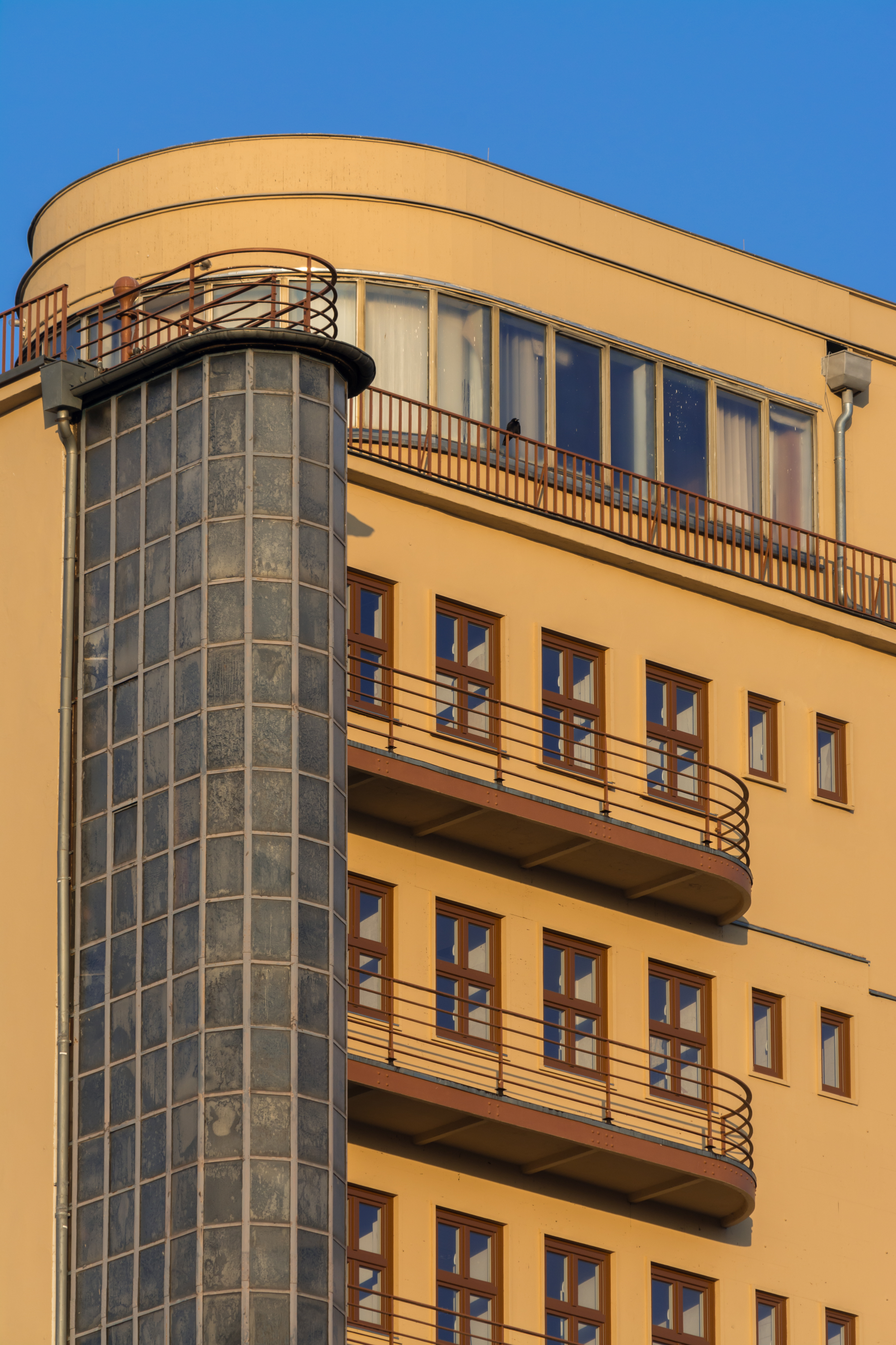 Top of Faber office building in Magdeburg. This is a photograph of an architectural monument.It is on the list of cultural monuments of Magdeburg